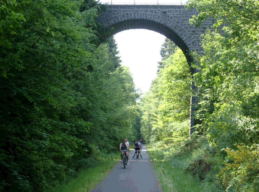 Mosel Maare Cycle route on converted (unused) railway corridor between Daun and Wittlich (Eifel, Germany)